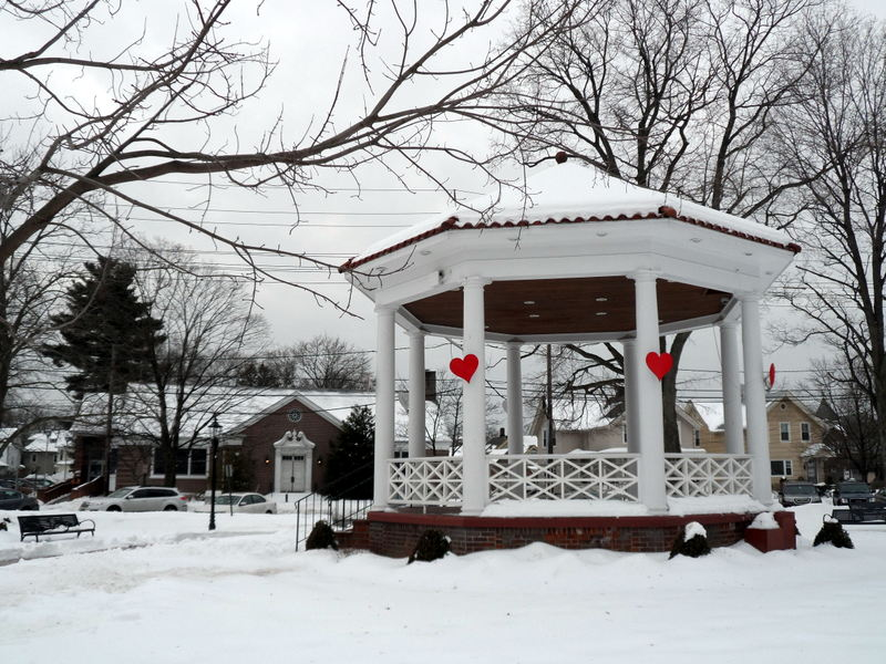 winter in westwood